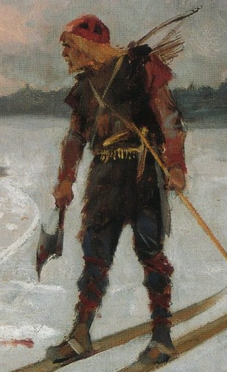 Lalli (fragment of "Bishop Henry killed by Lalli" by Albert Edelfelt, 1877)